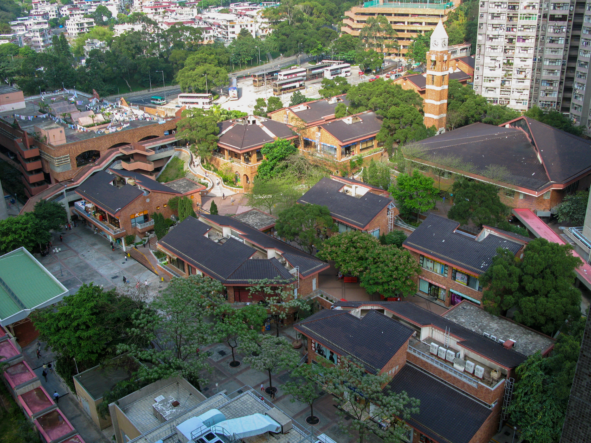 Kwong Yuen Estate Shopping Centre